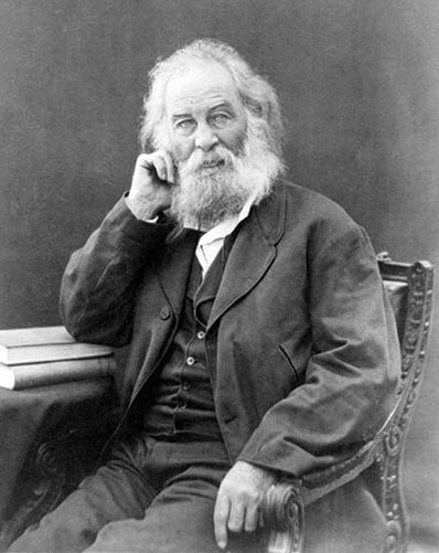 Photograph of poet Walt Whitman taken in 1871.